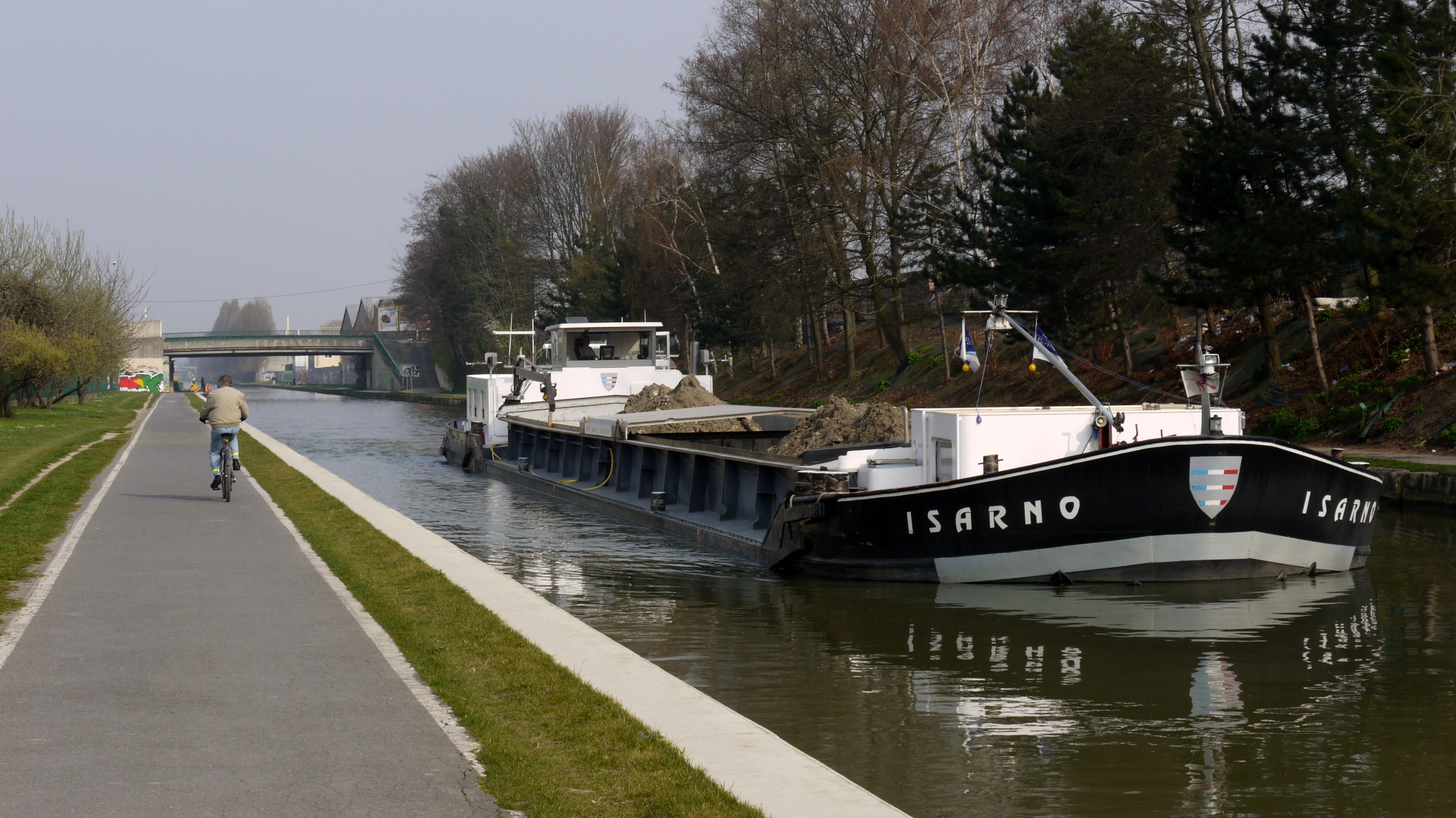 Bikeway, canal de l'Ourcq and péniche near Bobigny, France